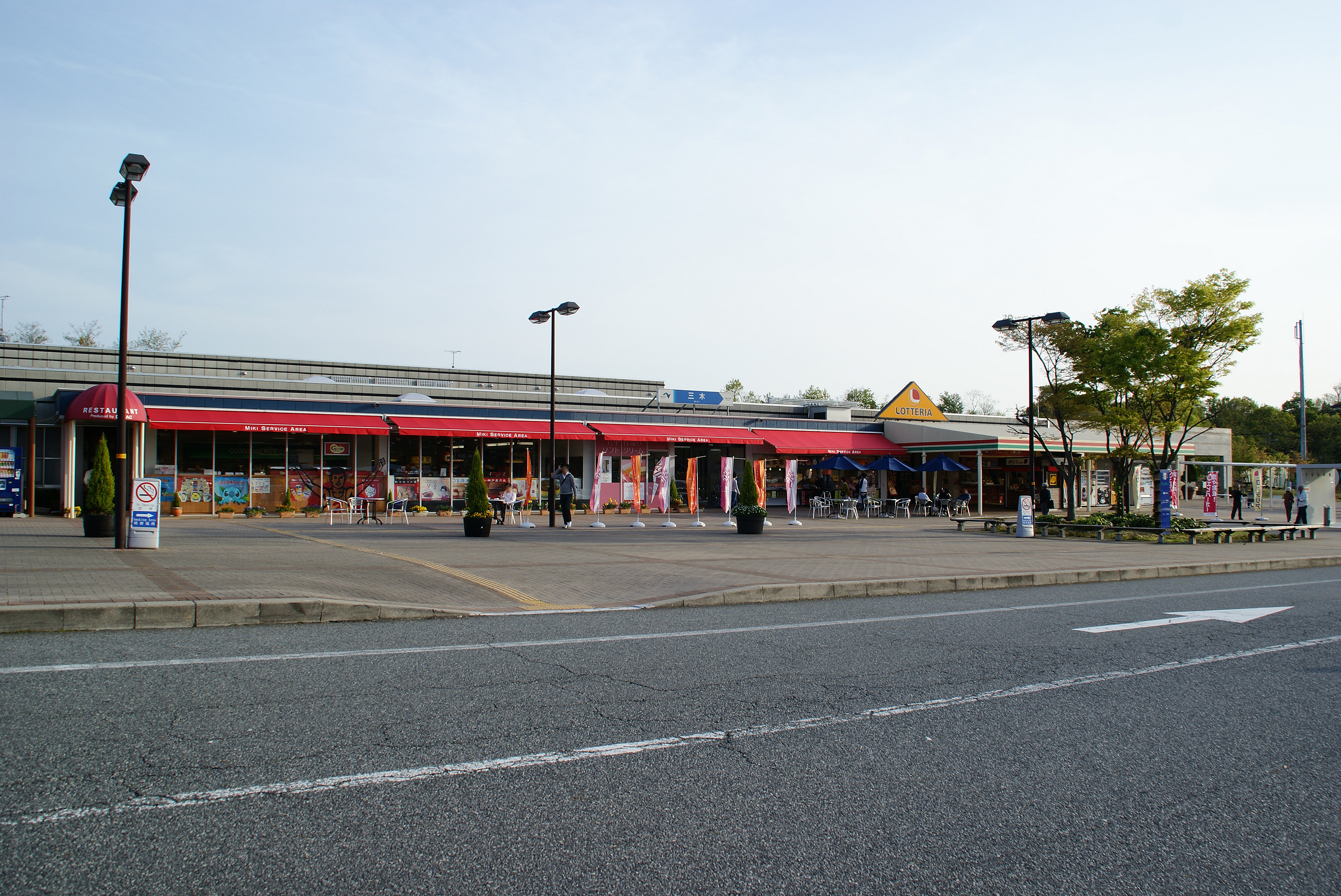 Sanyo Expressway, Miki Service Area.(Miki City, Hyogo Prefecture, Japan)